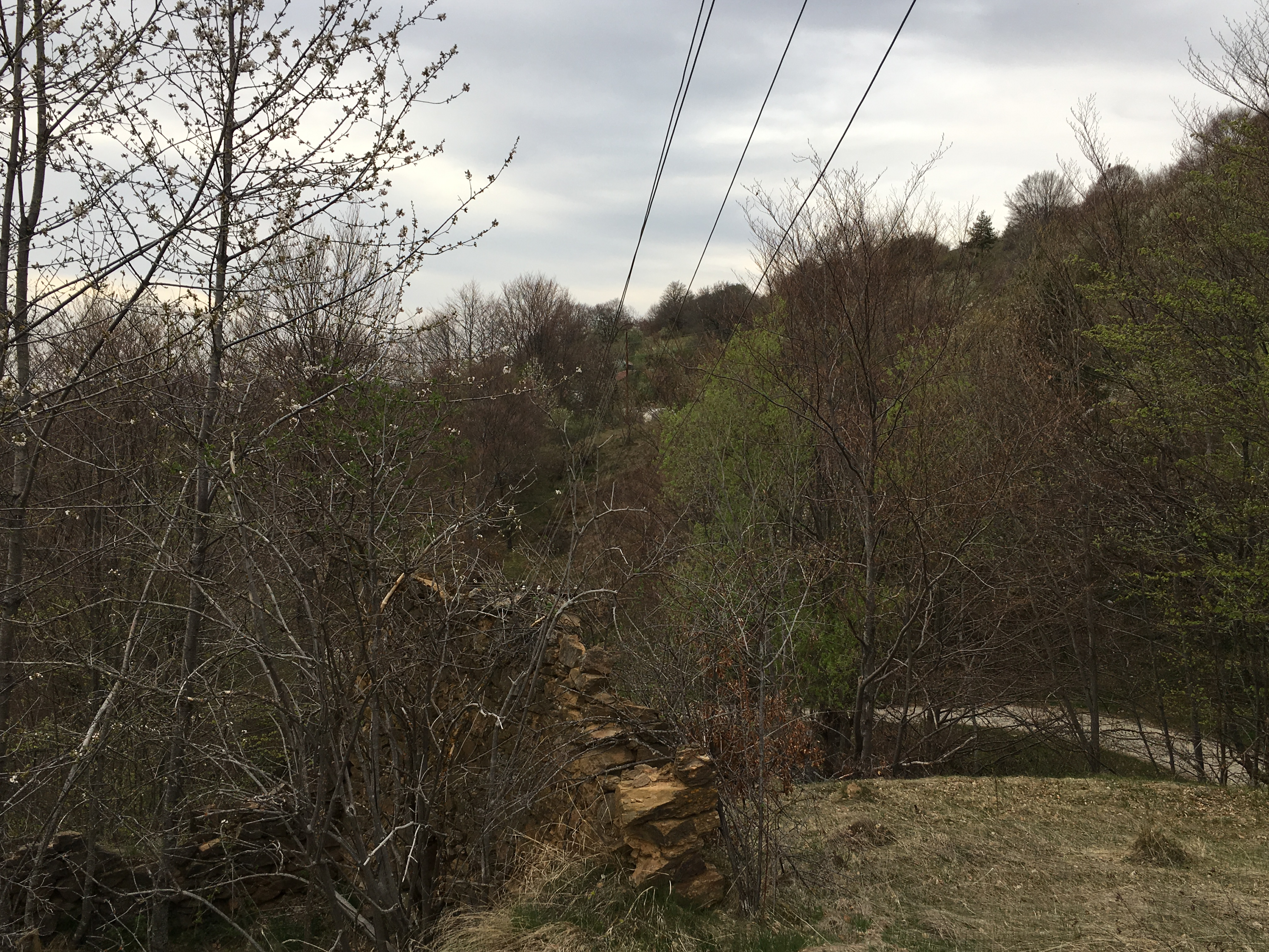 Houses in the village of Meteževo